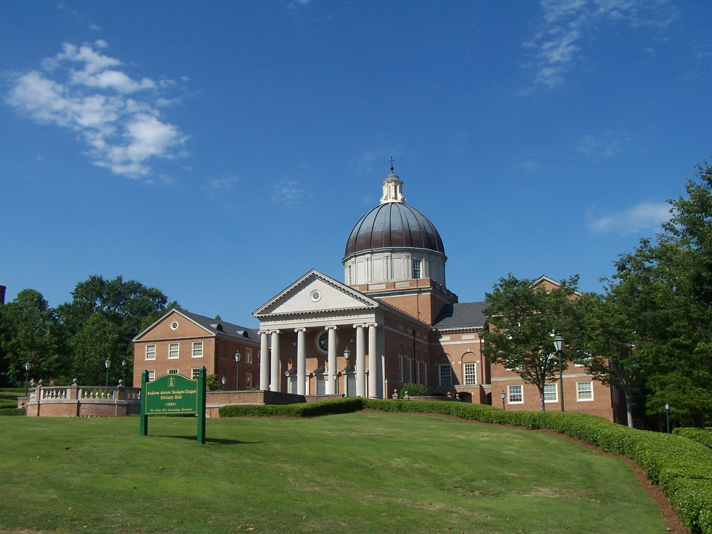 Author: Brian R. Mooney Source: Digital Photo